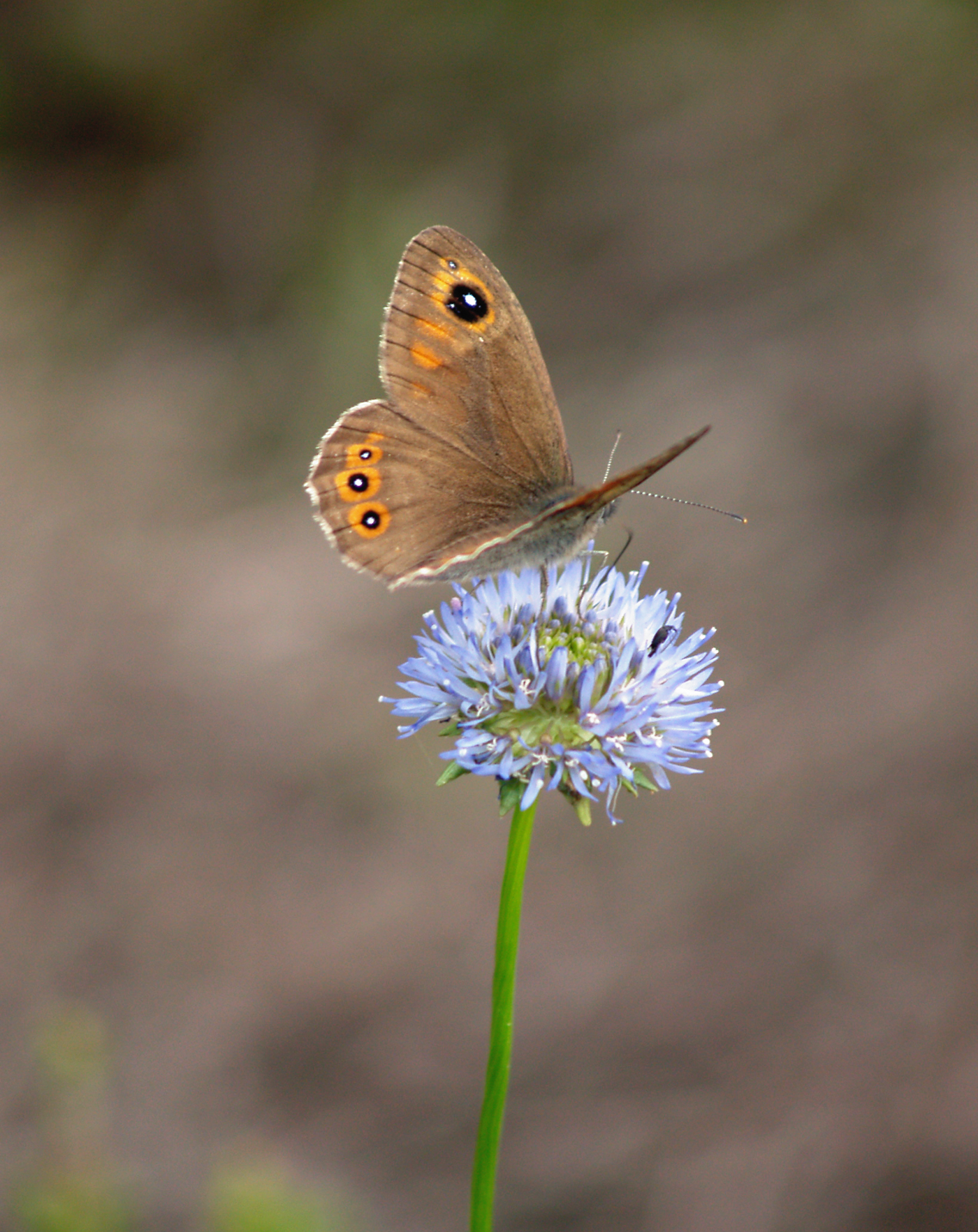 Large Wall Brown (Lasiommata maera), Geyer, Germany